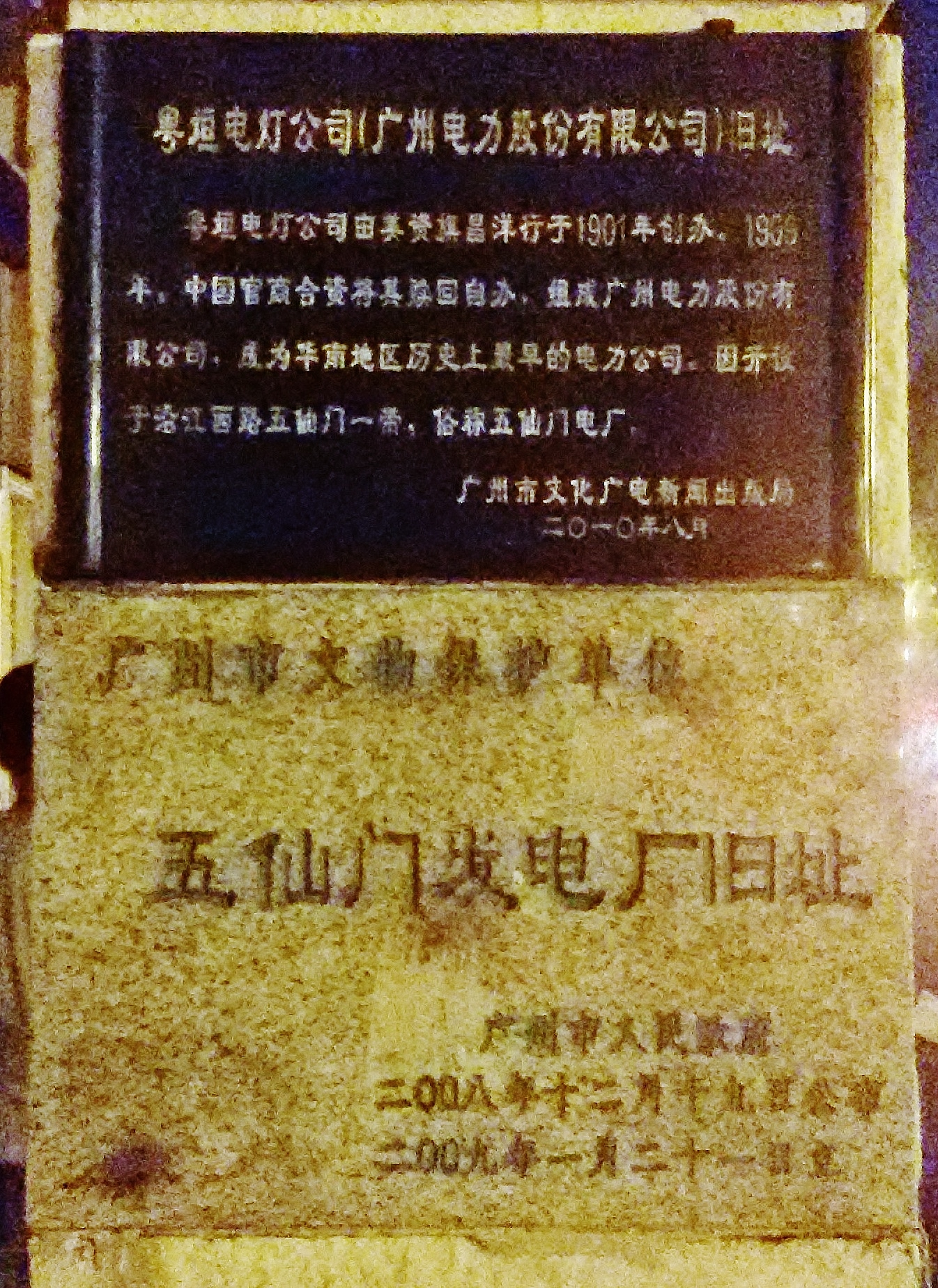 Board for NgSinMun Power Plant (modified)